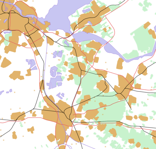 Randstad, detail north east (NO) (for locator map)